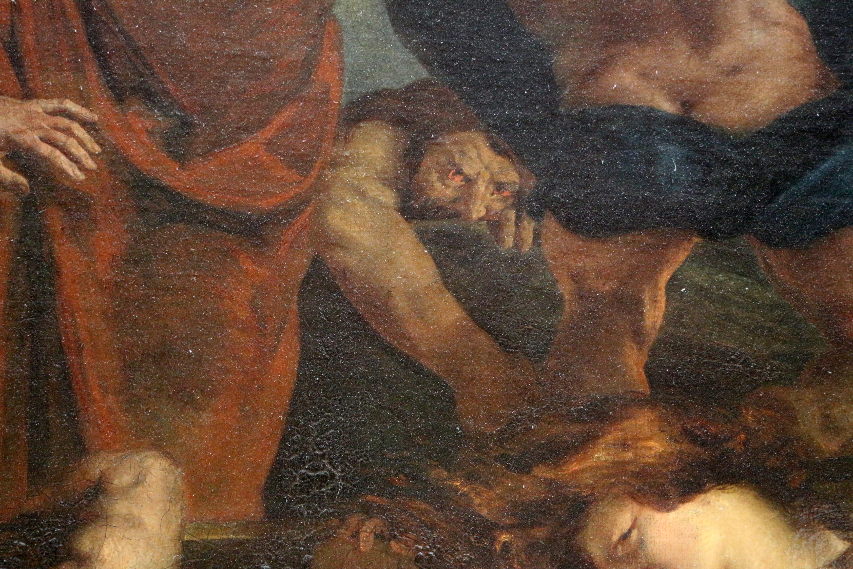 French paintings in the Louvre